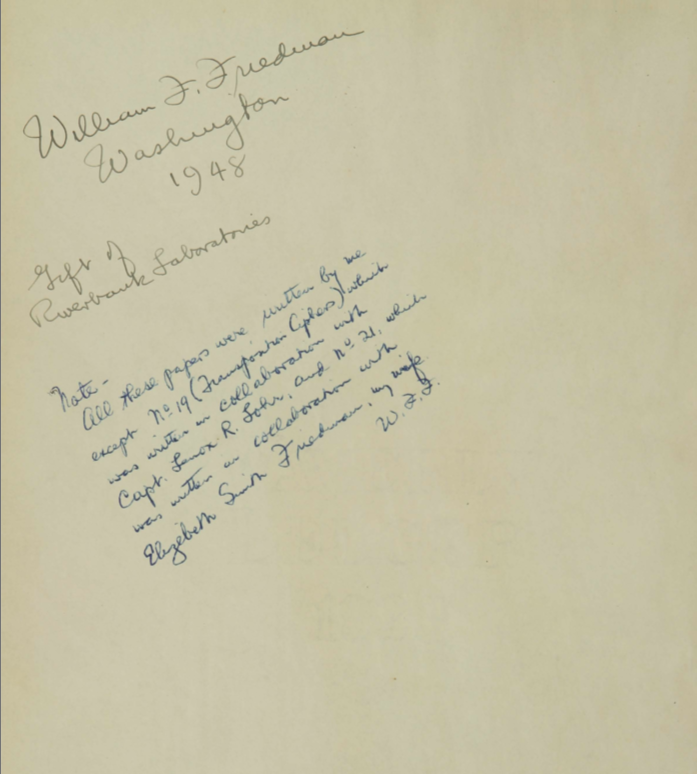 Inscription by William F. Friedman in edition of the Riverbank Publications numbers 15-22, with note claiming authorship of the works, with additional credits to Elizebeth Smith Friedman (#21) and Lenox R. Lohr (#19) for specific works.